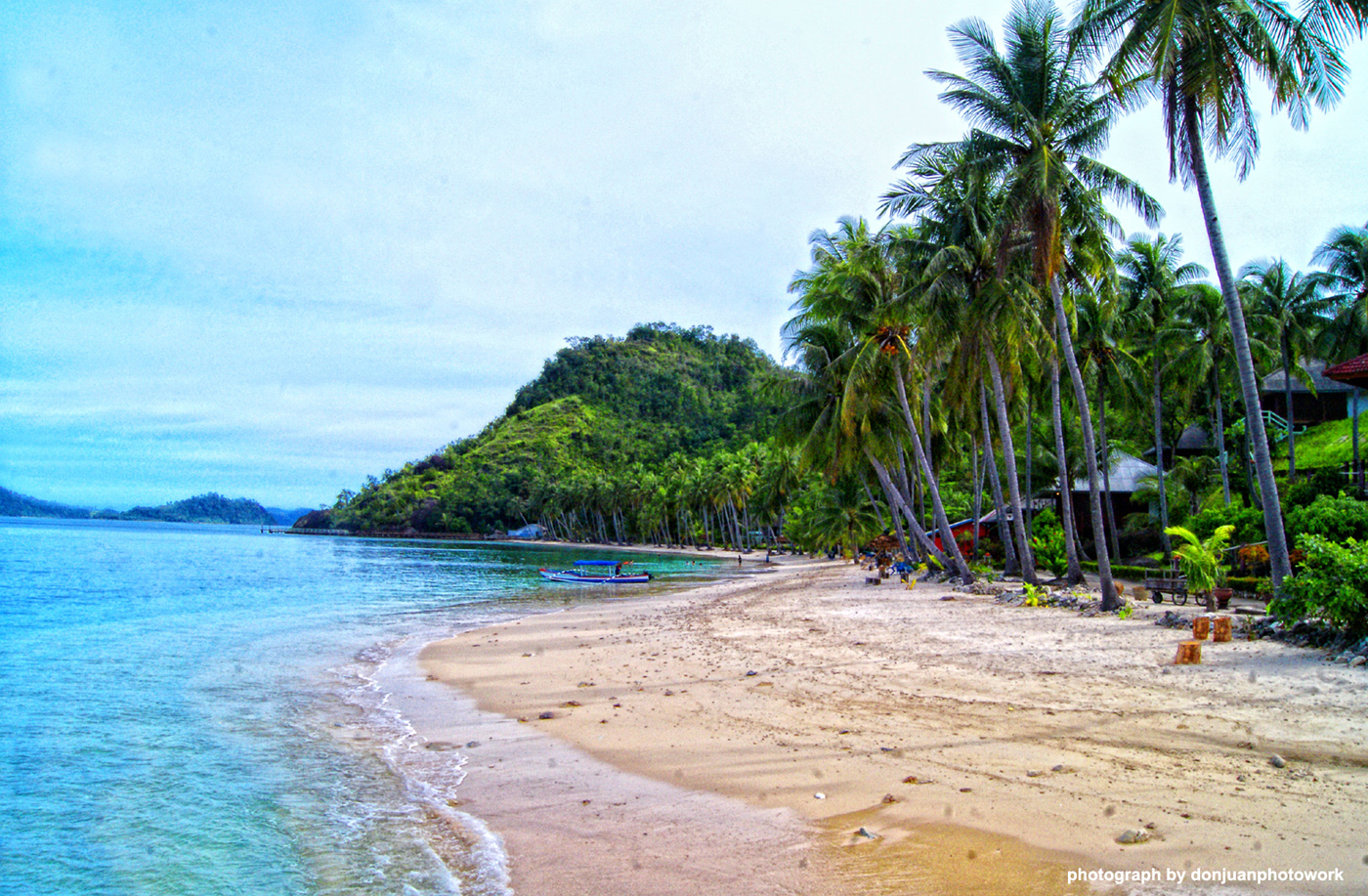 Sikuai Island, Padang, Indonesia